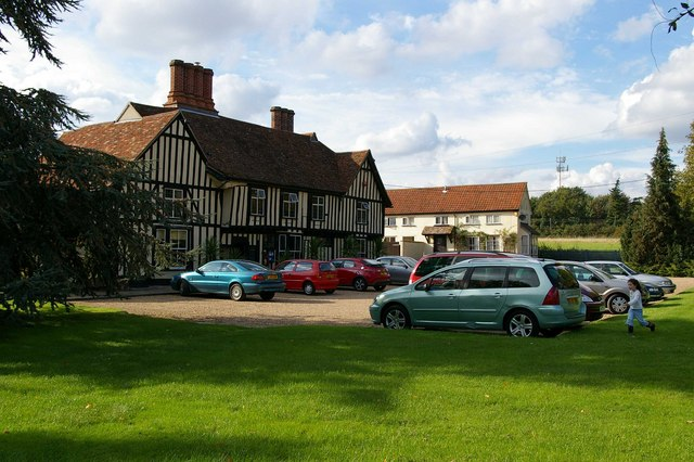 White Hart Plus Thirty Years